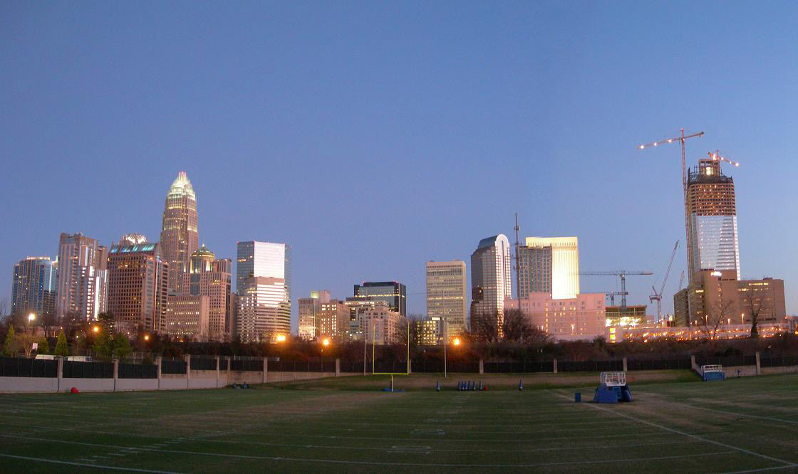 Charlotte skyline from the Carolina Panthers' practice field.